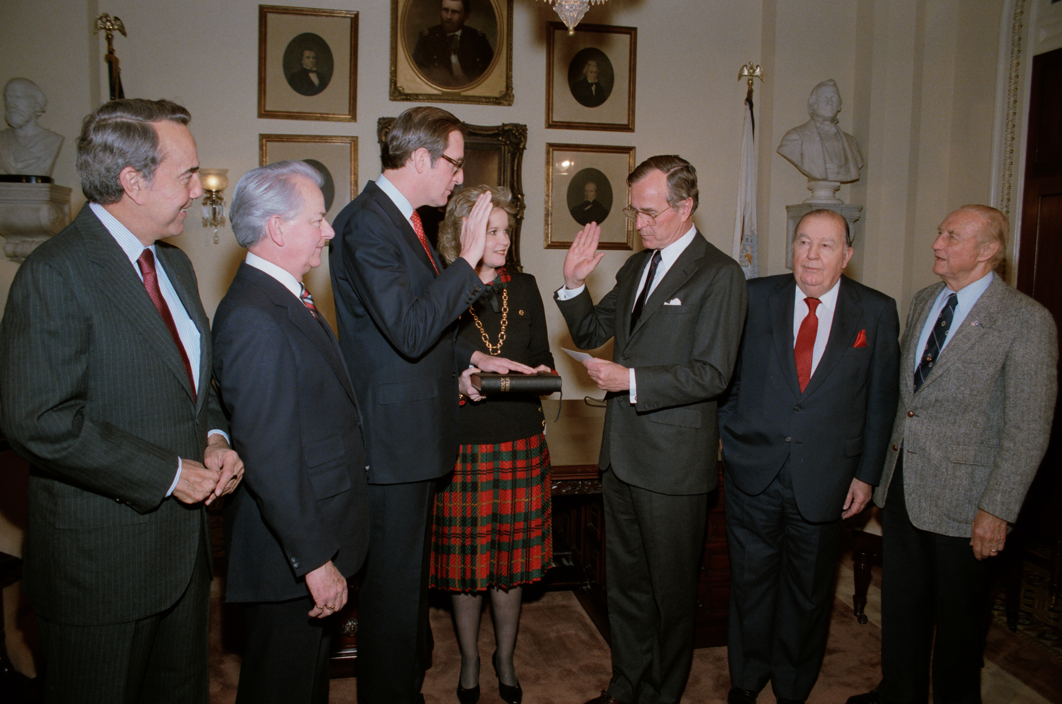 Surrounded by colleagues Senator Robert C. Byrd, Senator Bob Dole, Senator Strom Thurmond, and former Senator Jennings Randolph, Vice President George H.W. Bush administers the oath of office for Senator John D. (Jay) Rockefeller. Wife Sharon Rockefeller holds the Bible.